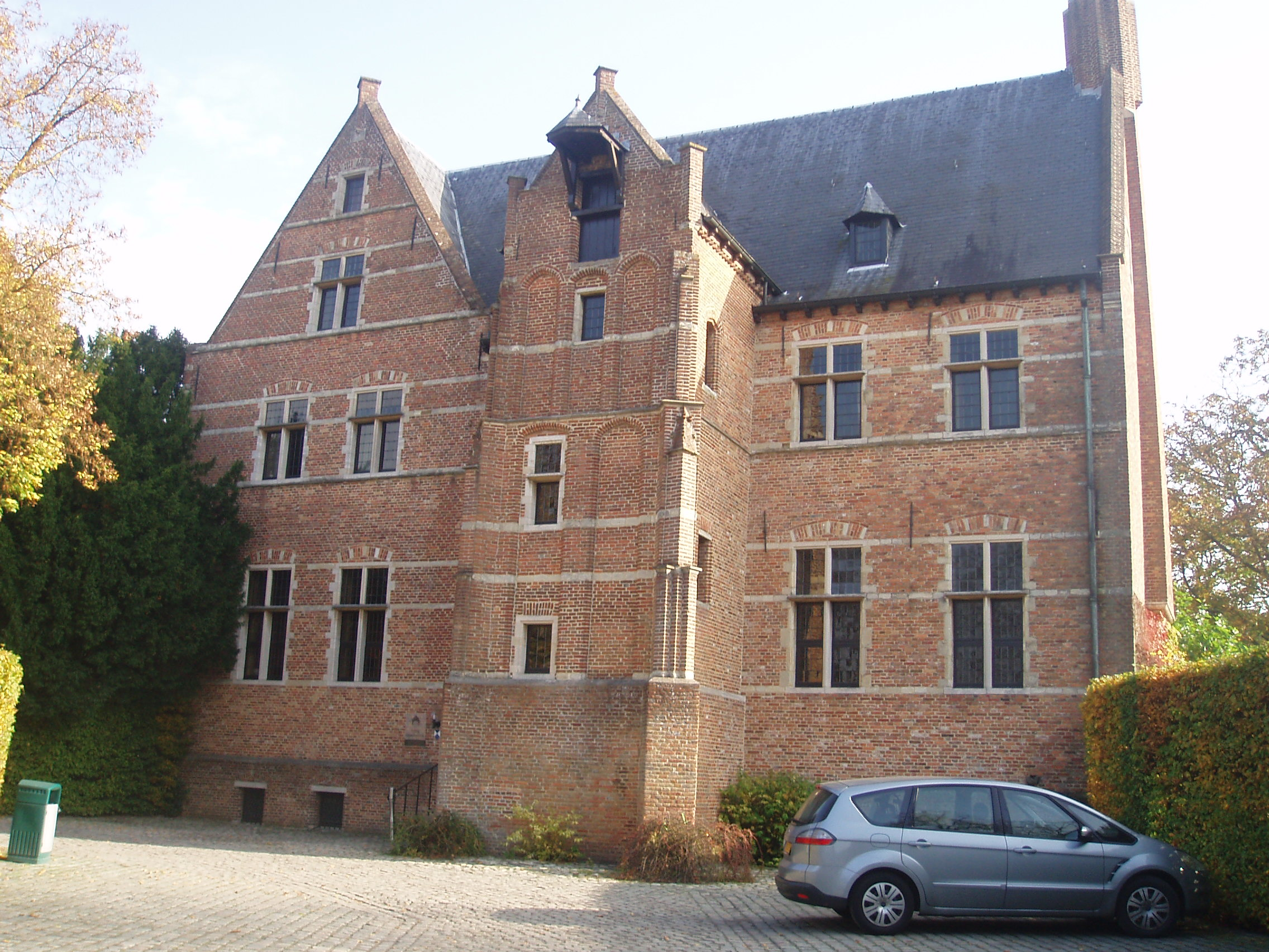 Priory of Oud-Turnhout